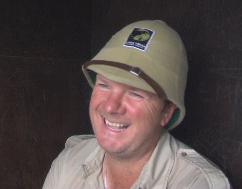 Lloyd Scott in August 2009 during his trek from Land's End to John O'Groats.